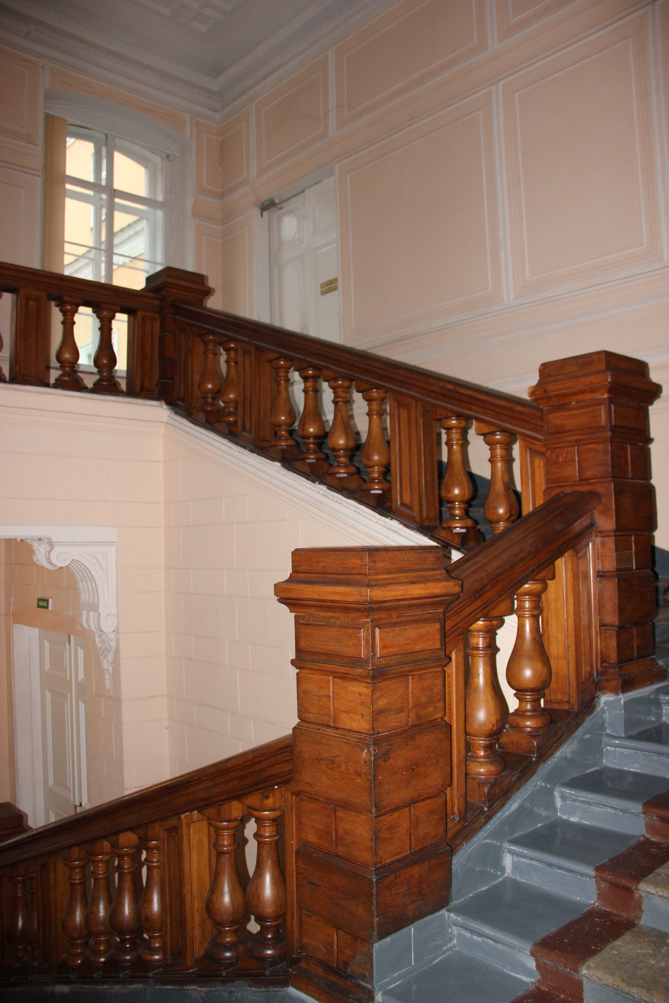 The main staircase Shuvalovsogo Palace St. Petersburg